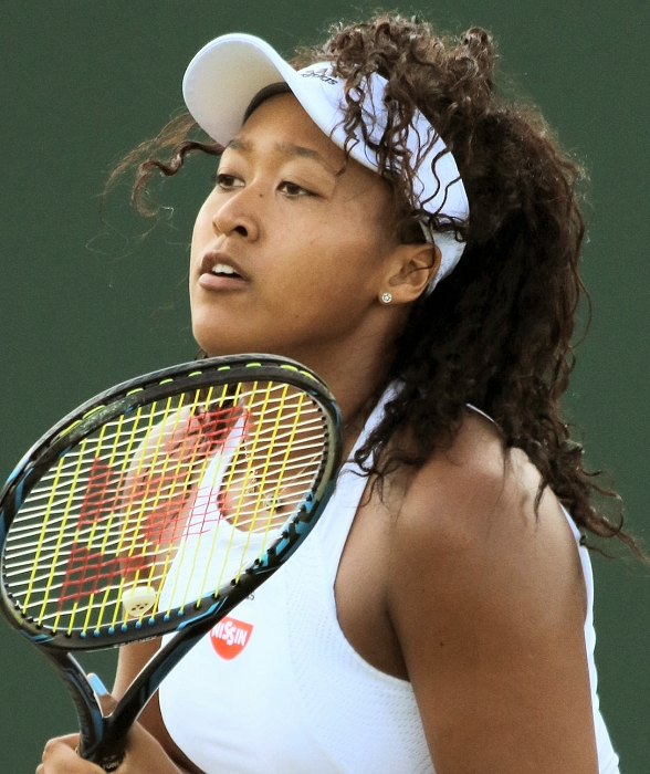 A photo of tennis player Naomi Osaka playing at Wimbledon in 2017.